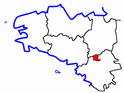 Description: Map for localisazion of cantons of Bretagne, (now Pays-de-Loire), region in France Source: made by Hervé Tigier in april 2005 from another large map (published in 1990)